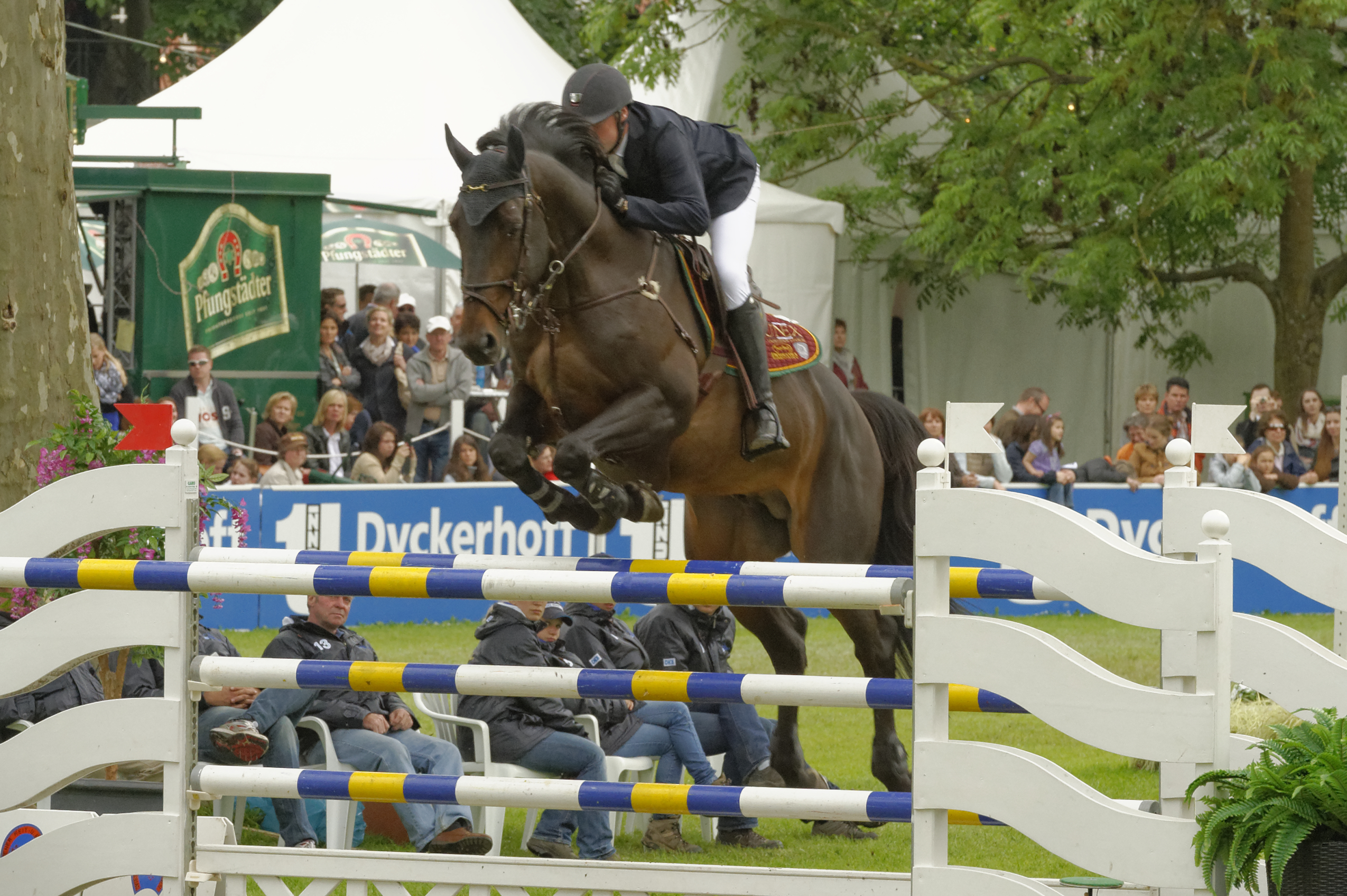 Internationales Pfingstturnier Wiesbaden 2013 The making of this document was supported by the Community-Budget of Wikimedia Germany.